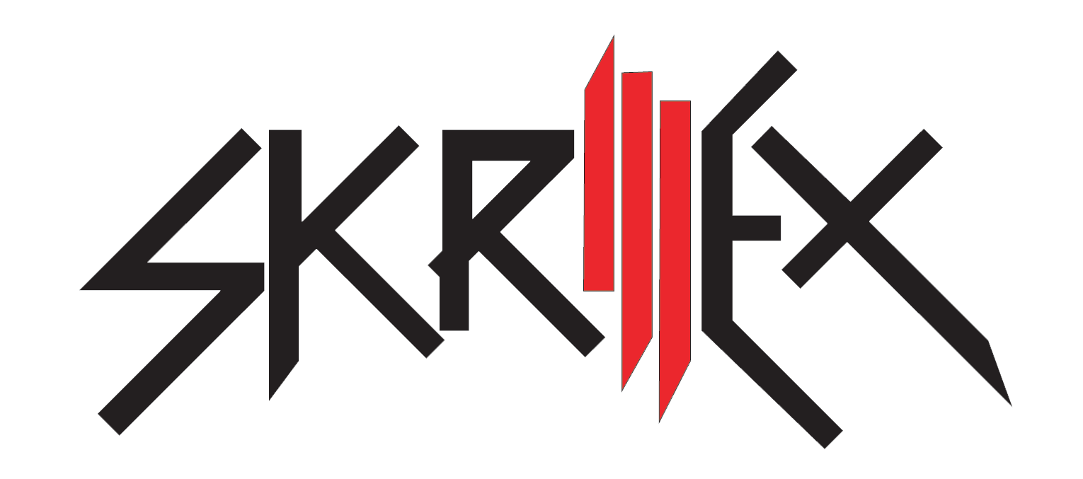 Skrillex Logo